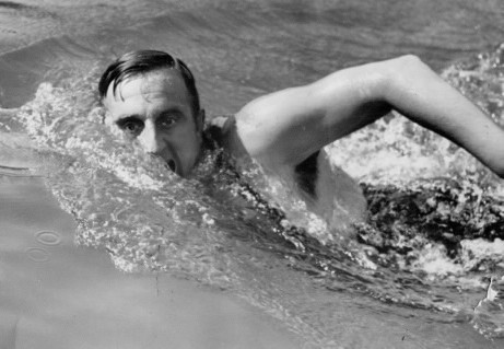 Ernst Vierkoetter; who rose to fame and fortune overnight when in 1927 he churned his way through the icy water of Lake Ontario to win the first C.N.E. marathon swim; now teaches the young and old of Toronto his famous crawl technique. The above picture shows Vierkoetter plowing along at a fast clip.